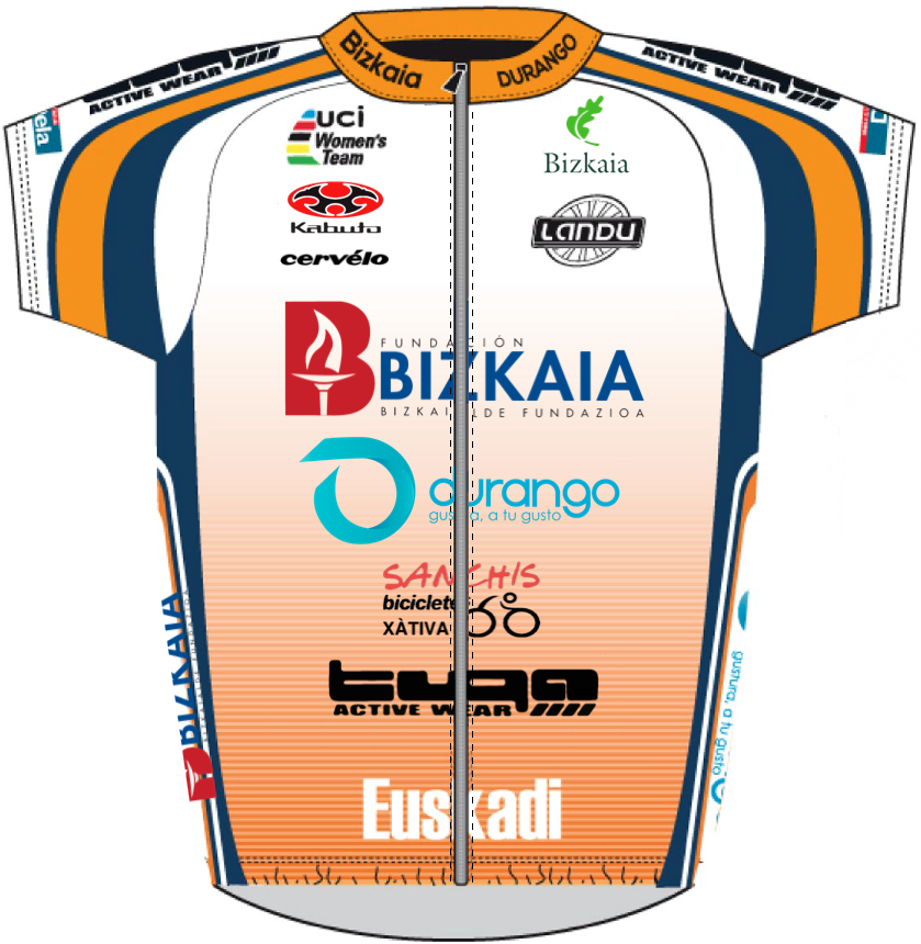 2015 Bizkaia-Durango jersey.